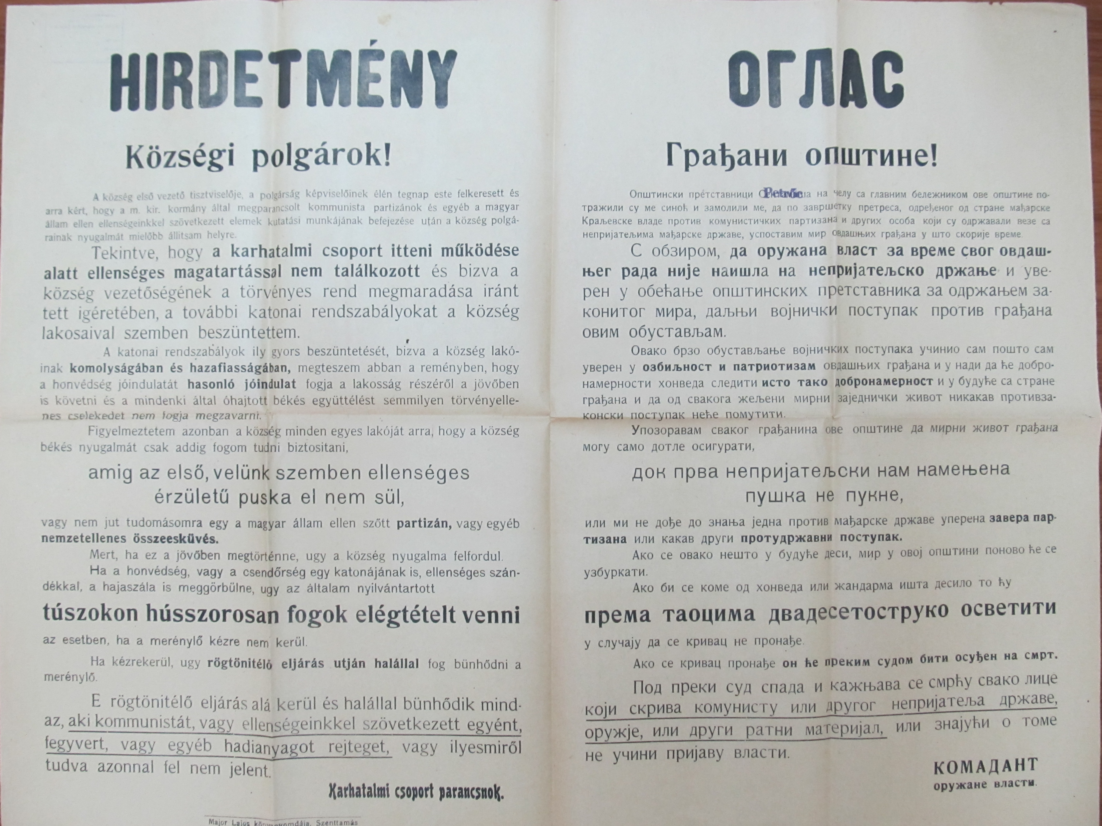 The bilingual proclamation (in Serbian and Hungarian) of the Hungarian occupying authority in Bački Petrovac during World War II, threatening with retaliation twenty-for-one in the event that the attacker on honvéd or gendarme is not found. In the event that the culprit is found he would be sentenced to death by court-martial. Inventory number 2154. Srpski (latinica): Dvojezični (na srpskom i mađarskom jeziku) proglas mađarske okupacione vlasti u Bačkom Petrovcu tokom Drugog svetskog rata kojim se preti odmazdom dvadeset za jednog u slučaju da napadač na honveda ili žandarma ne bude pronađen. U slučaju da vinovnik bude pronađen on bi prekim sudom bio osuđen na smrt. Inventarski broj 2154.